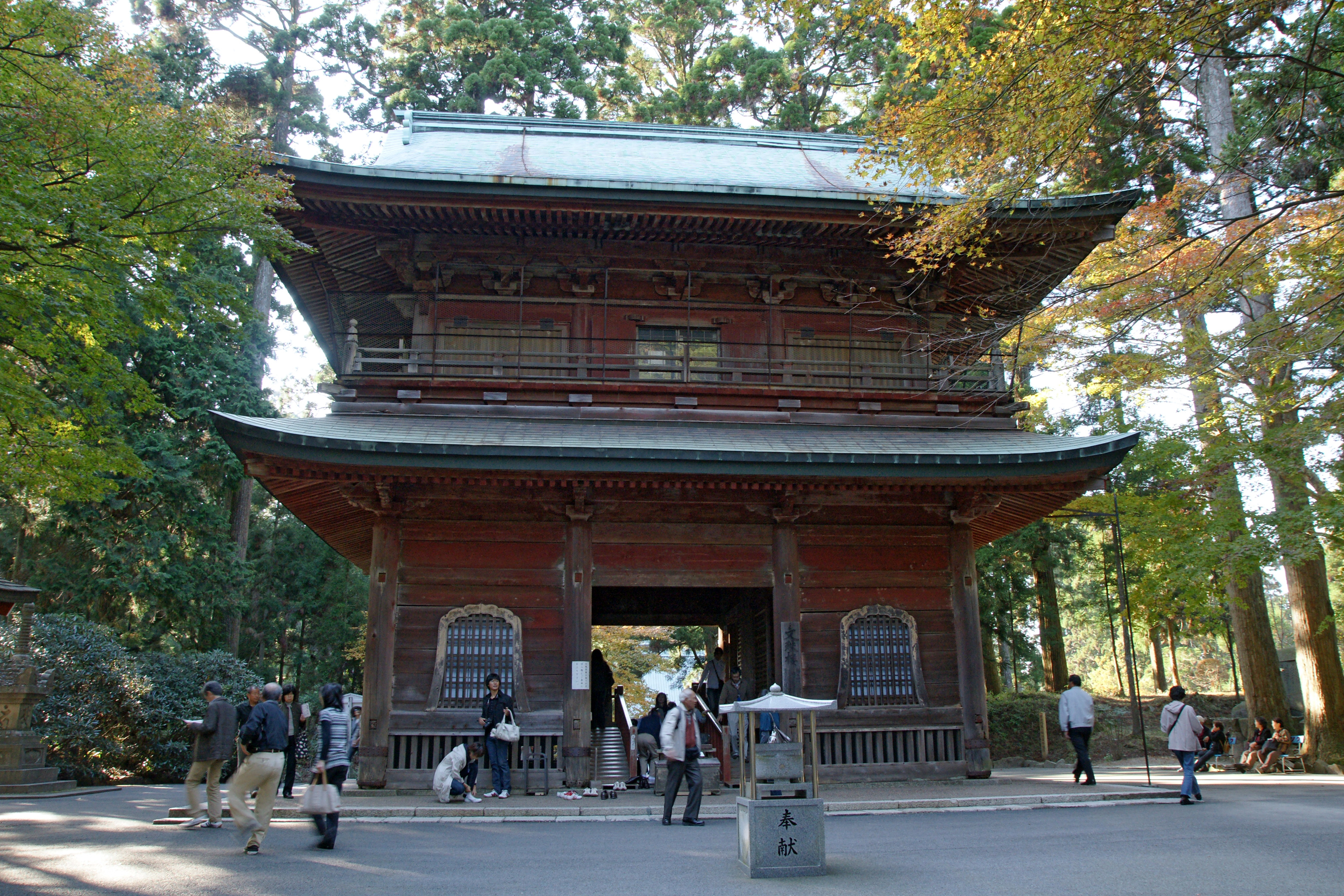 Monjuro of Enryakuji Buddhist temple, Otsu, Shiga prefecture, Japan